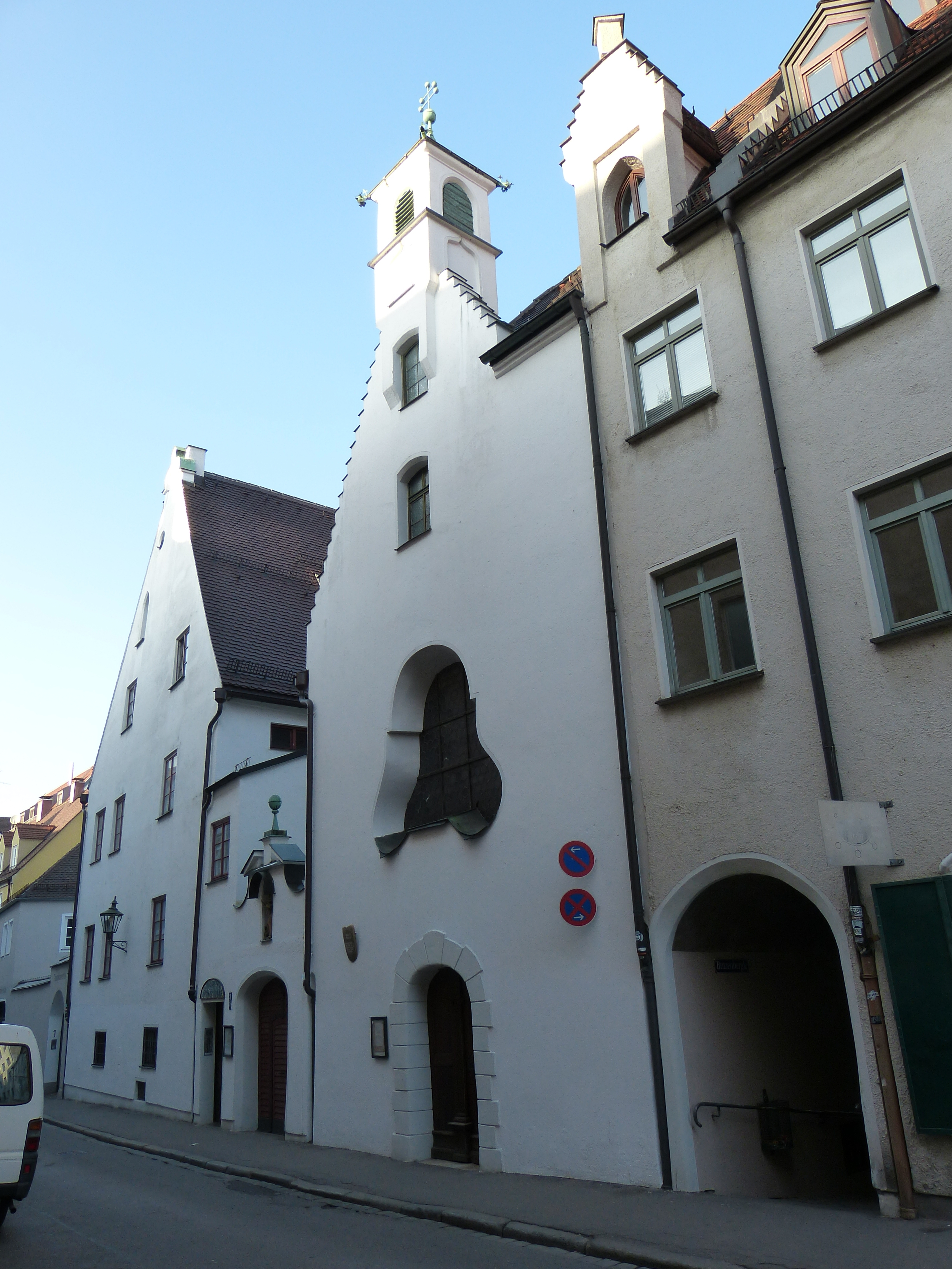 Augsburg, Dominikanergasse 5. This is a photograph of an architectural monument.